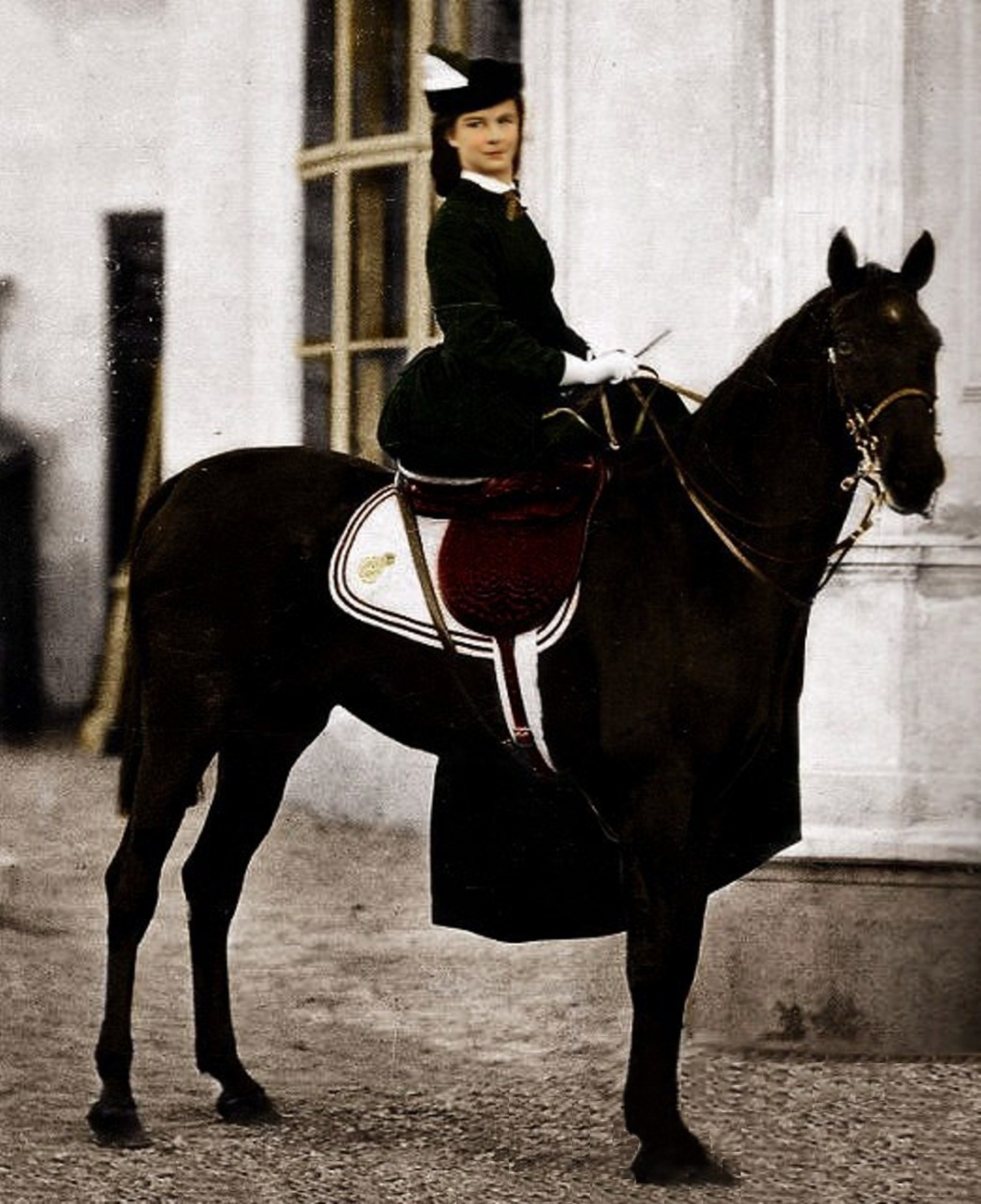 The Empress of Austria Elisabeth Amelie Eugenie of Wittelsbach, called Sissi, in 1896 in Biarritz.